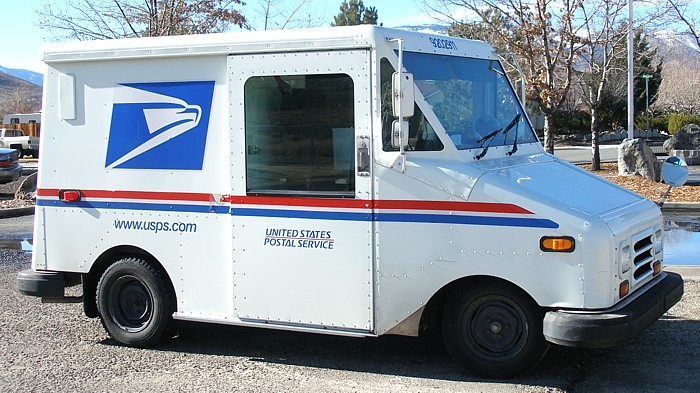 A small United States Postal Service truck seen in Carson City, Nevada. The USPS often uses these smaller vehicles in suburban areas.